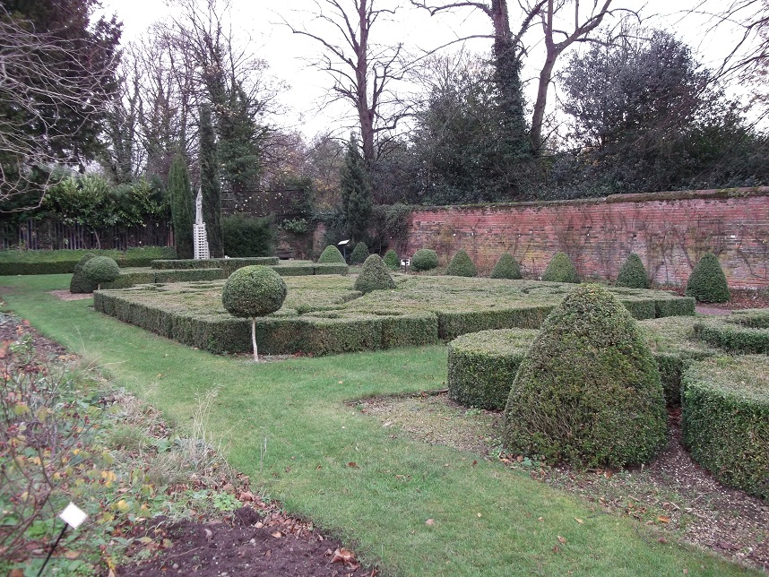 The "Maltese Cross" parterre design shown on the left is one half of a proposed design for the North Garden attributed to Captain William Winde. It has been adopted by the Castle Bromwich Hall Gardens Trust as its logo.